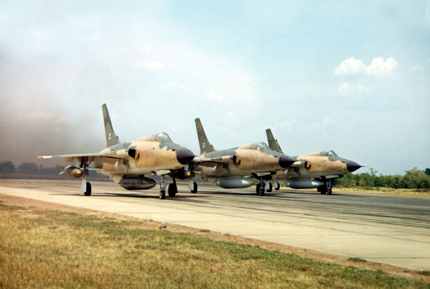 F-105s take off on a mission to bomb North Vietnam, 1966. (U.S. Air Force photo)